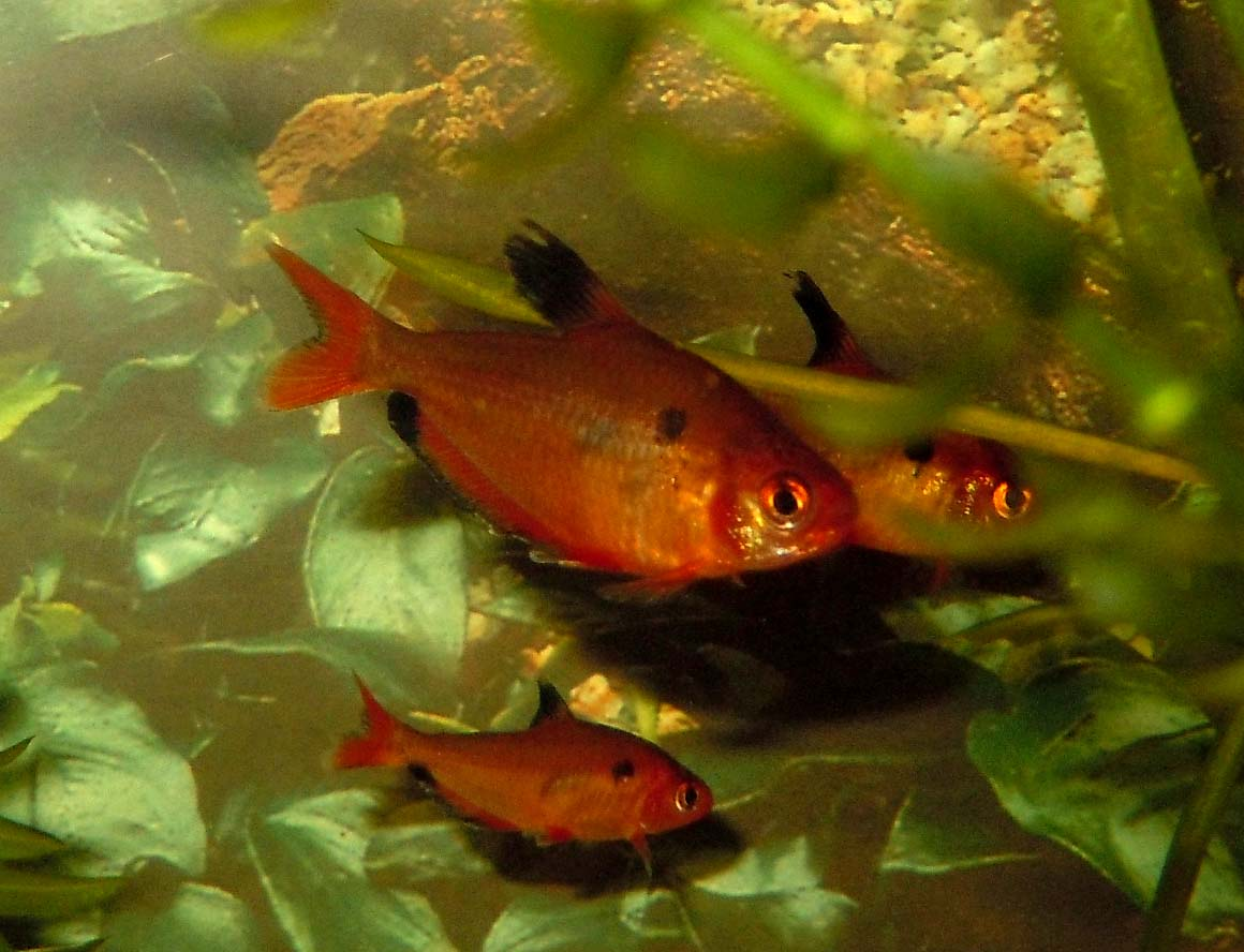 Minor tetra (Hyphessobrycon minor) in aquarium